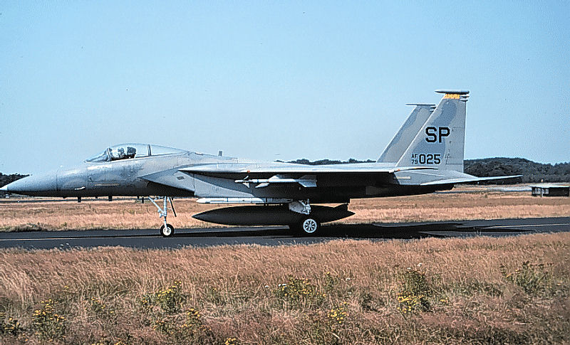 53d Fighter Squadron - SP - McDonnell Douglas F-15C-24-MC Eagle - 79-0025